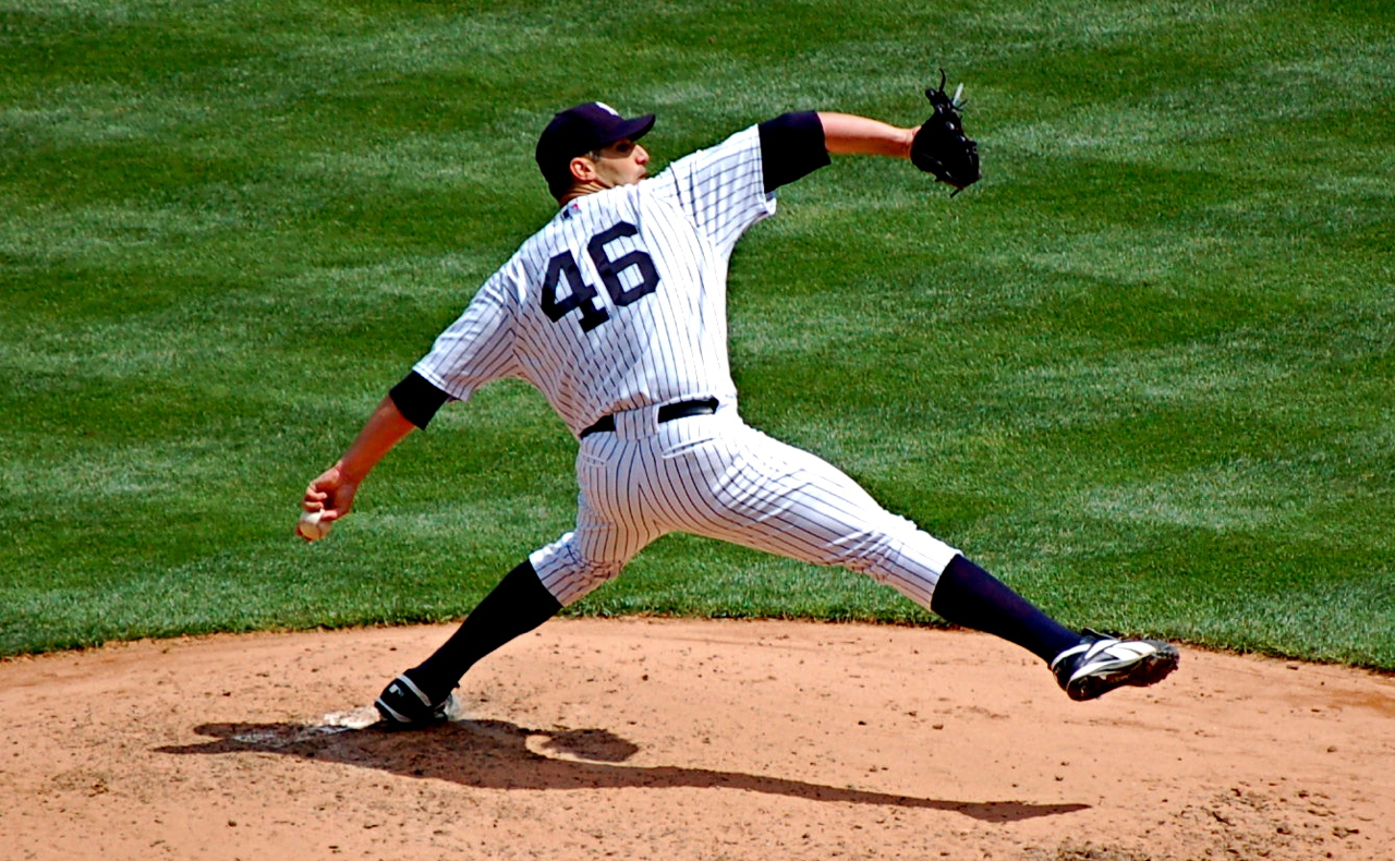 Andy Pettitte